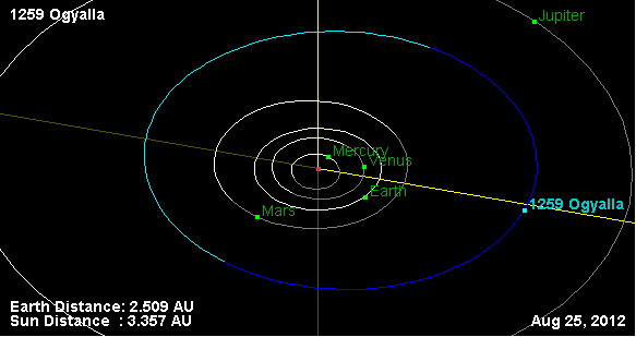 1259 Ógyalla orbit, and his position on 25 Aug 2012 (NASA Orbit Viewer applet)